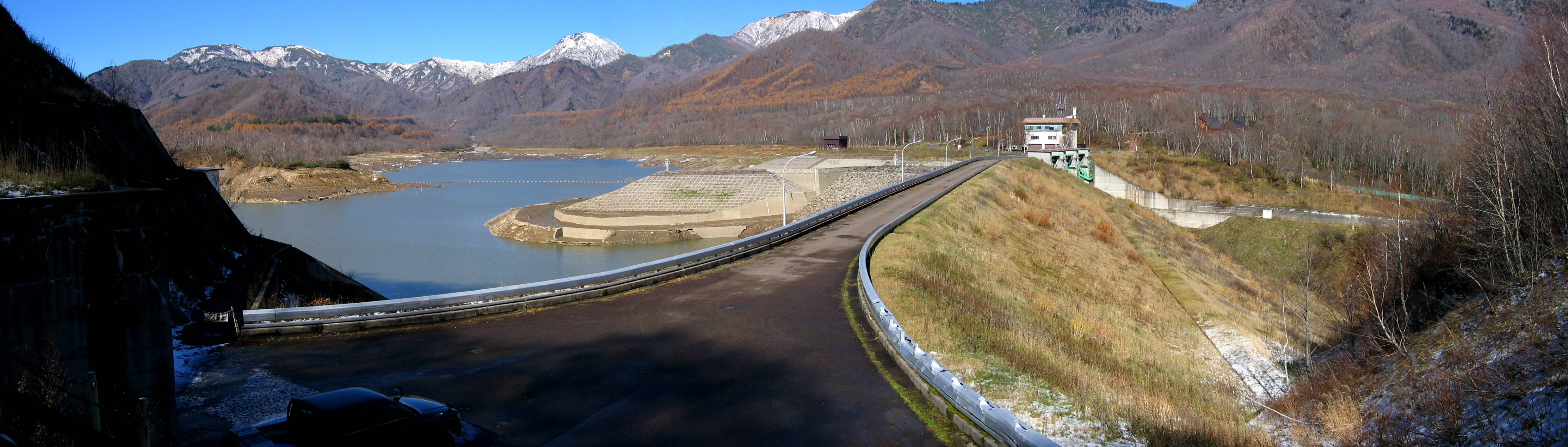 Sasagamine Dam (笹ヶ峰ダム) is a dam in Myoko city, Niigata prefecture, Japan.